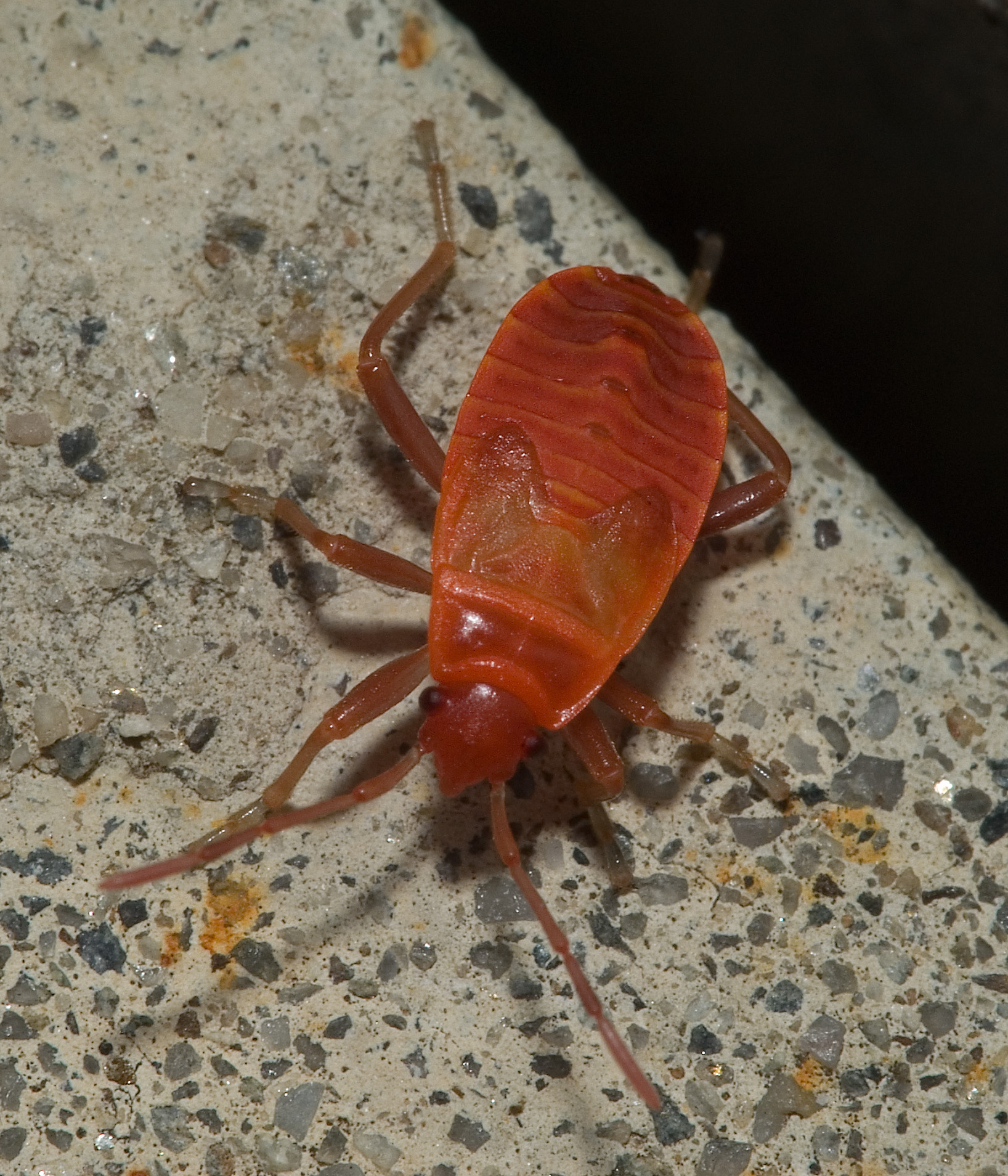 Firebug